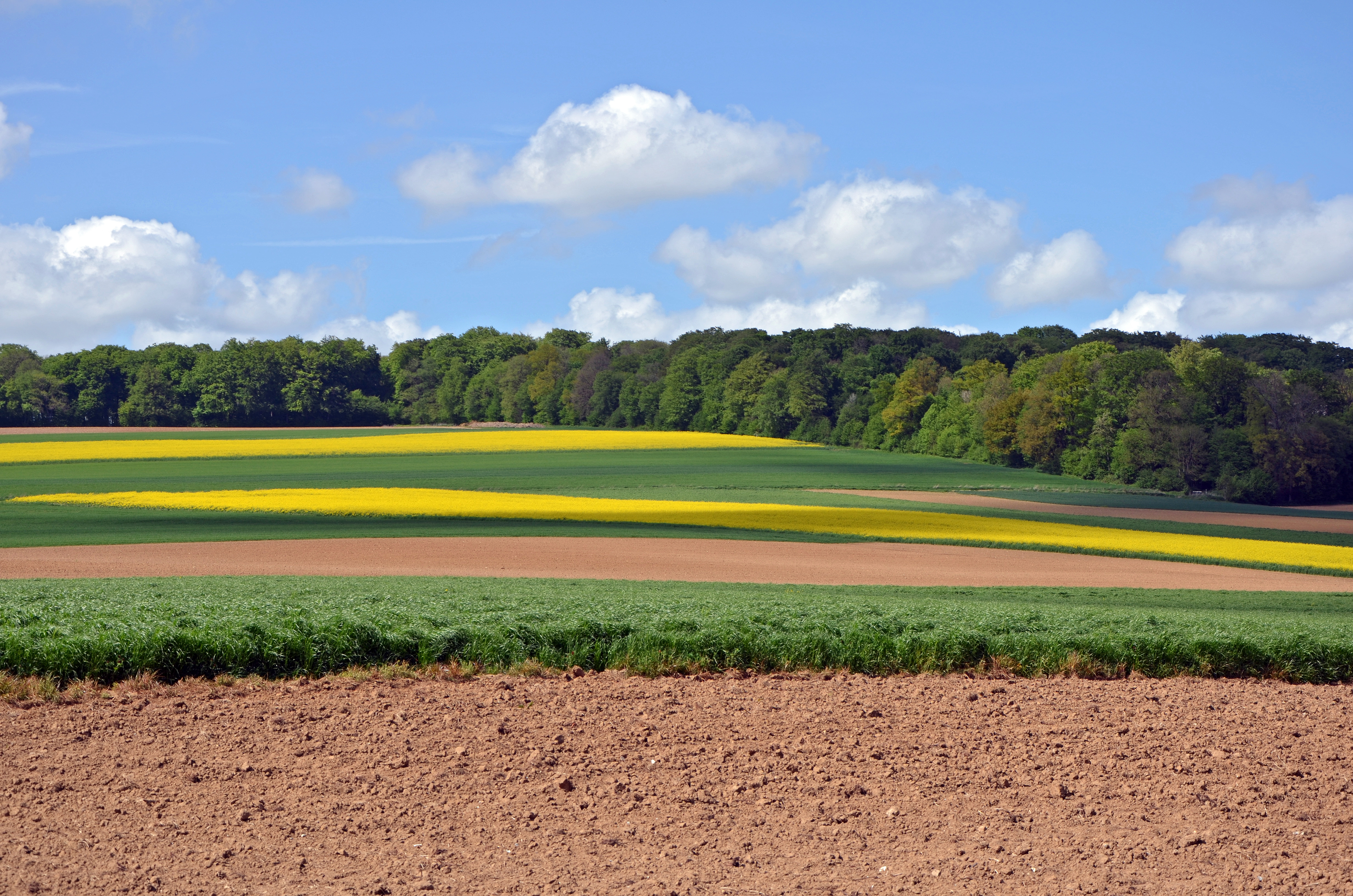 Fields in the Authie valley near Doullens, Somme, Picardie